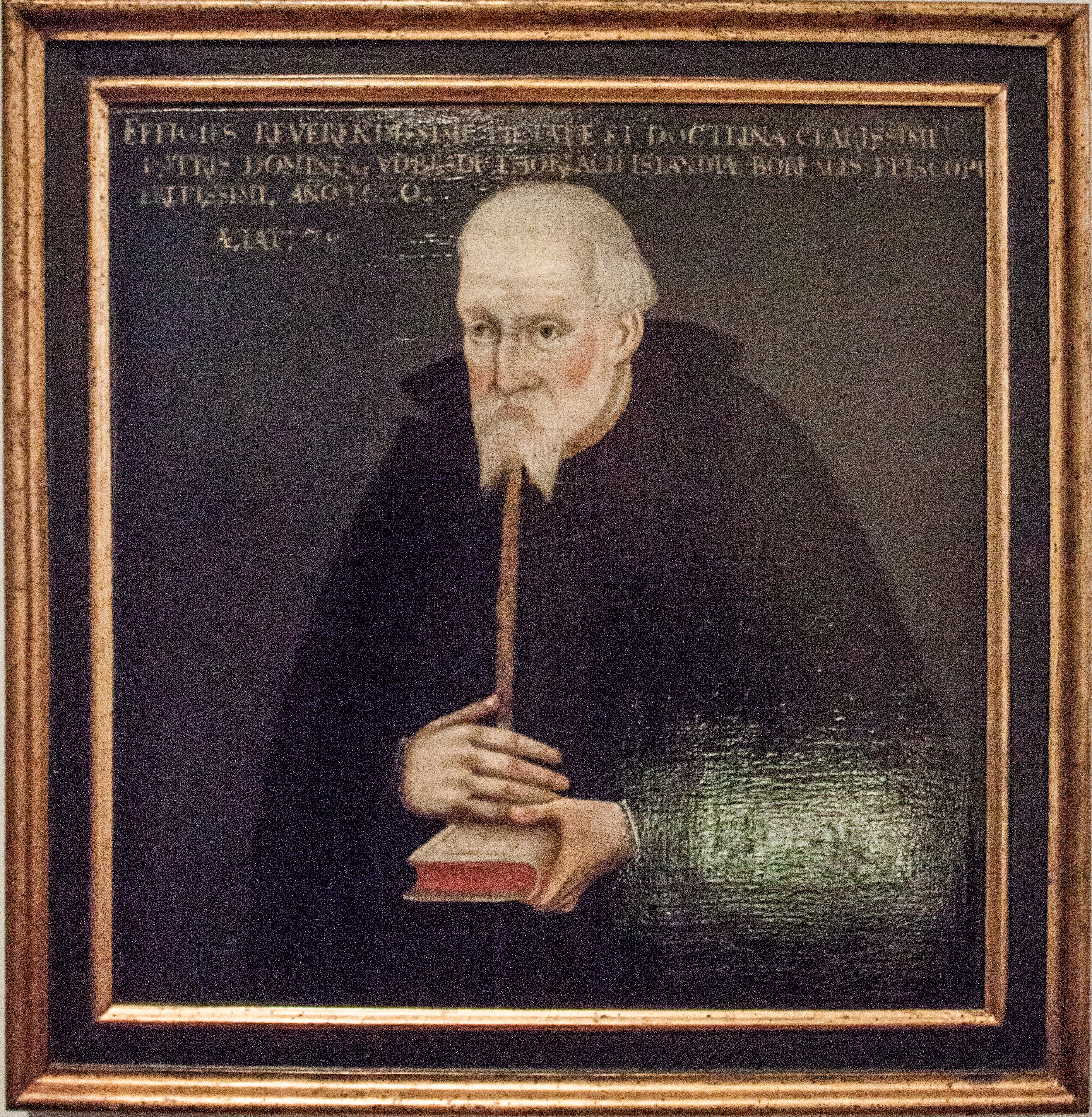 He was a pioneer of book publishing in Iceland